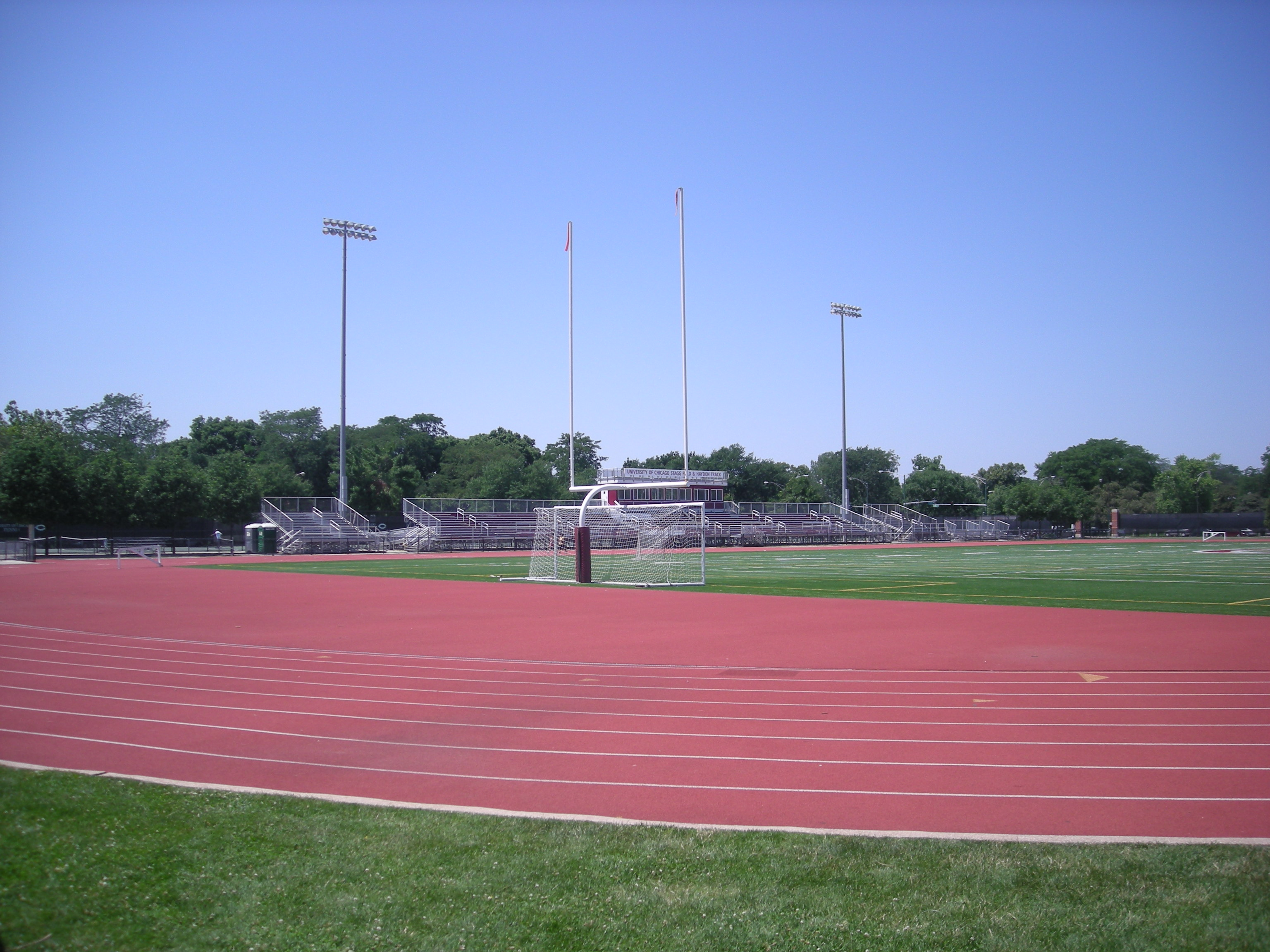 Amos Alonzo Stagg Field on the campus of the University of Chicago in Chicago, Illinois (United States).